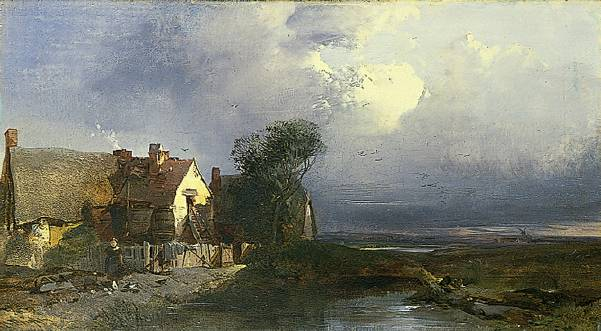 "Effect after Rain", oil on canvas